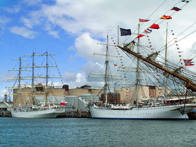 Tall ships in Sandon Half-Tide Dock: On the left is Dar Mlodziezy (built1982), a steel full-rigged ship from Poland. On the right, Statsraad Lehmkuhl (built 1914), a three-masted steel barque from Norway. Behind the ships is United Utilities waste water treatment plant.